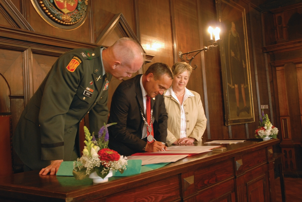 Colonel Brian Boyle, commander of U.S. Army Garrison Grafenwoehr, and the German city of Weiden Lord Mayor Kurt Seggewiss signed a partnership agreement May 28, 2008 which aims to help American families familiarize themselves with the host nation city and to assist Weiden citizens in understanding what their American counterparts are experiencing